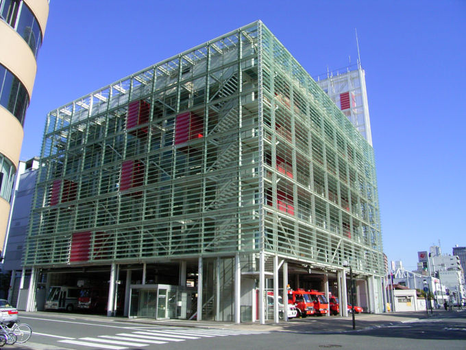 Hirosima Nishi Fire Station, Hiroshima, Japan.